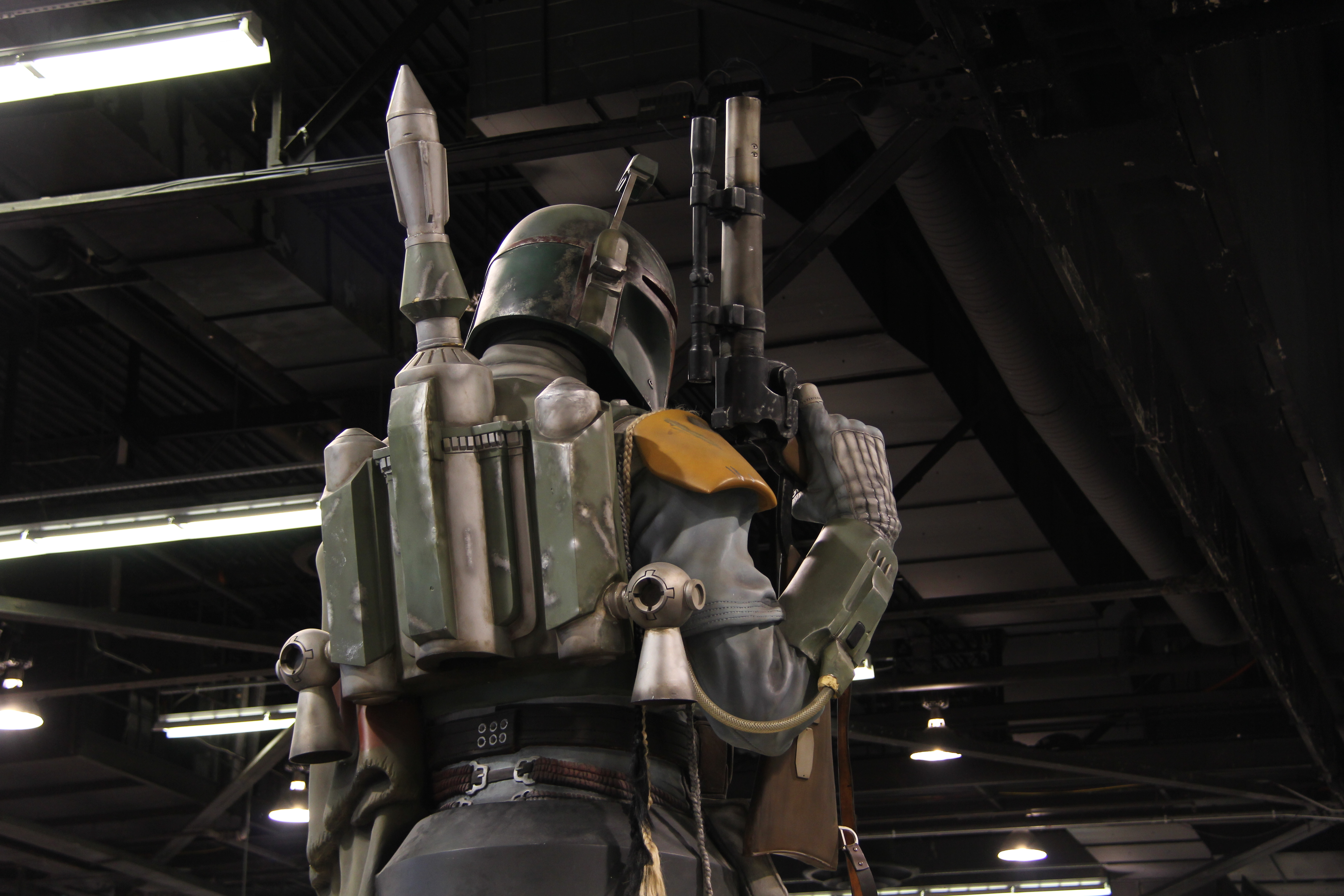 SWCA - Boba Fett booth Star Wars Celebration in Anaheim, April 2015.